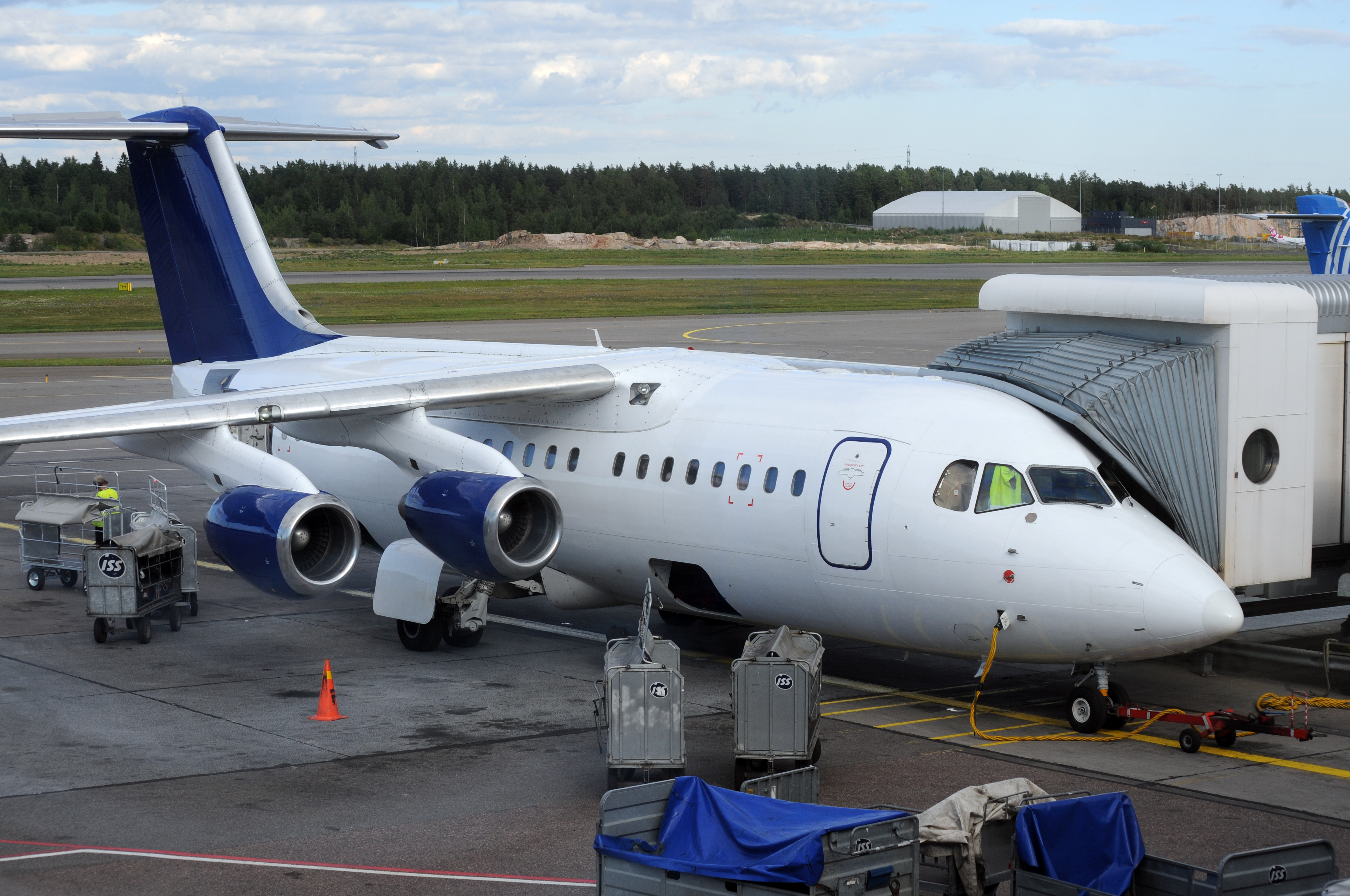 Avro RJ aircraft at Helsinki-Vantaa Airport